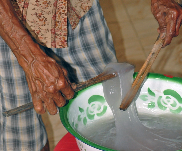 Using a special wooden fork ('gata-gata') to separate a serving from the bowl of 'papeda', a glue-like staple dish in the Maluku and Papua provinces of Indonesia made of pure sago palm starch (Hatusua, West Seram, Indonesia oct2009).